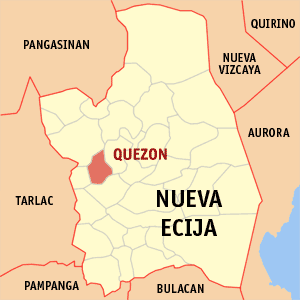 Map of Nueva Ecija showing the location of Quezon